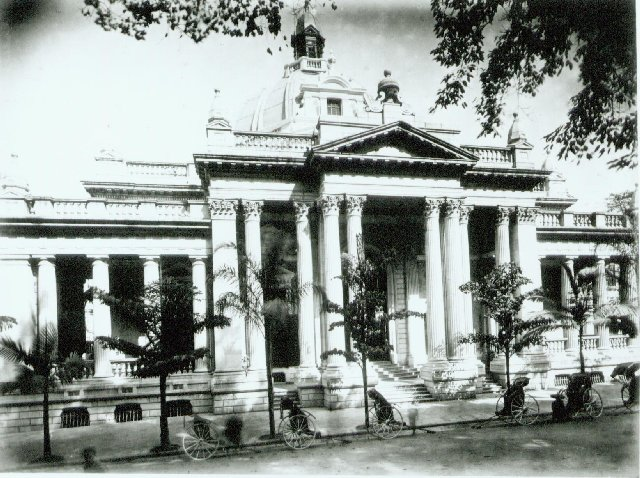 Second building of The Hongkong and Shanghai Banking Corporation Limited in 1890